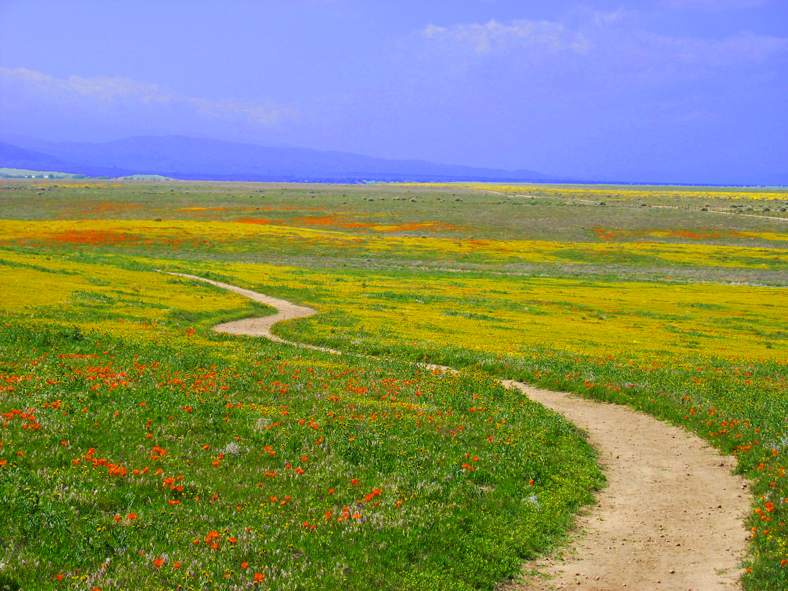 California Wildflowers